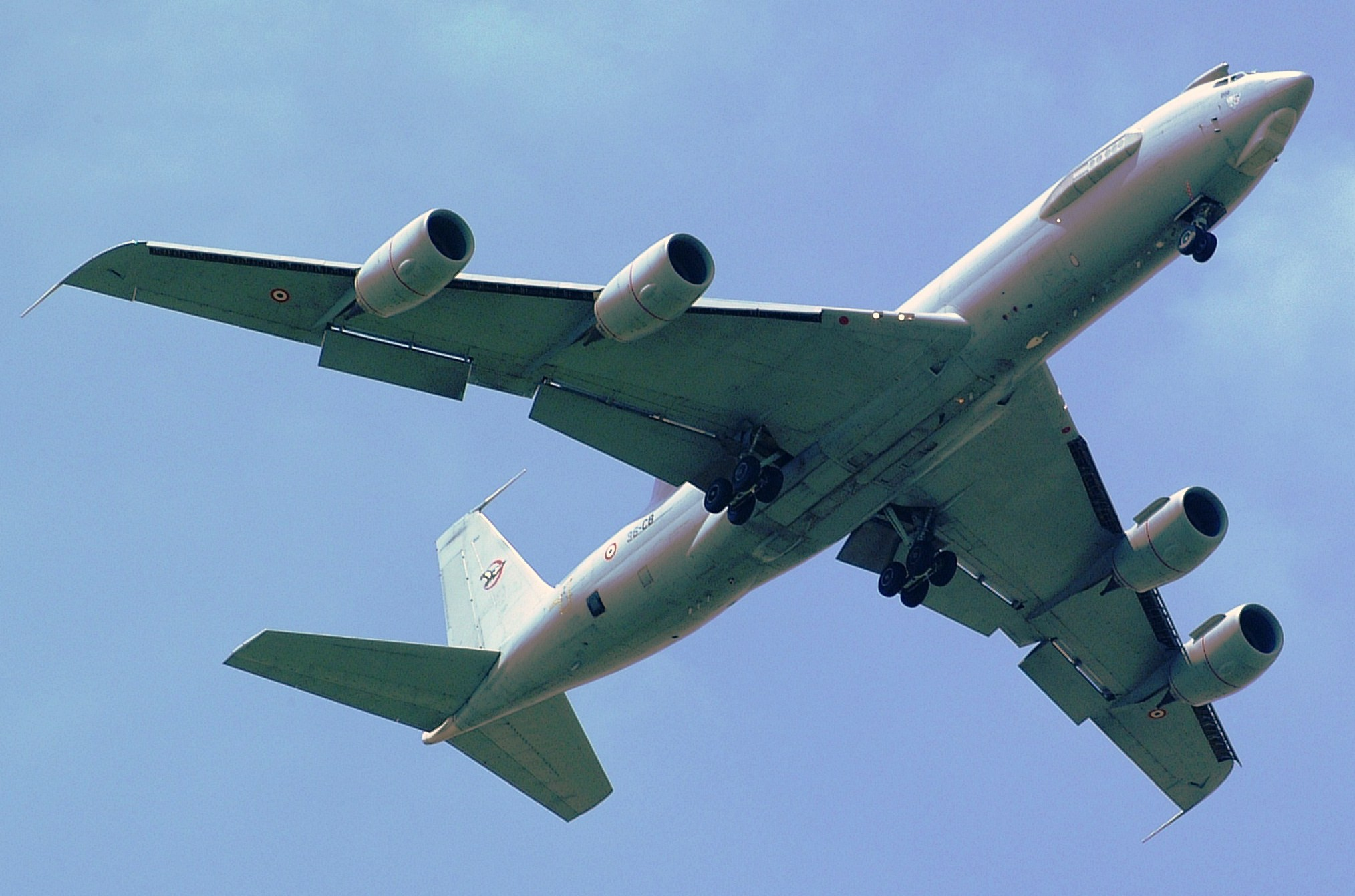 Dish minus the dish.